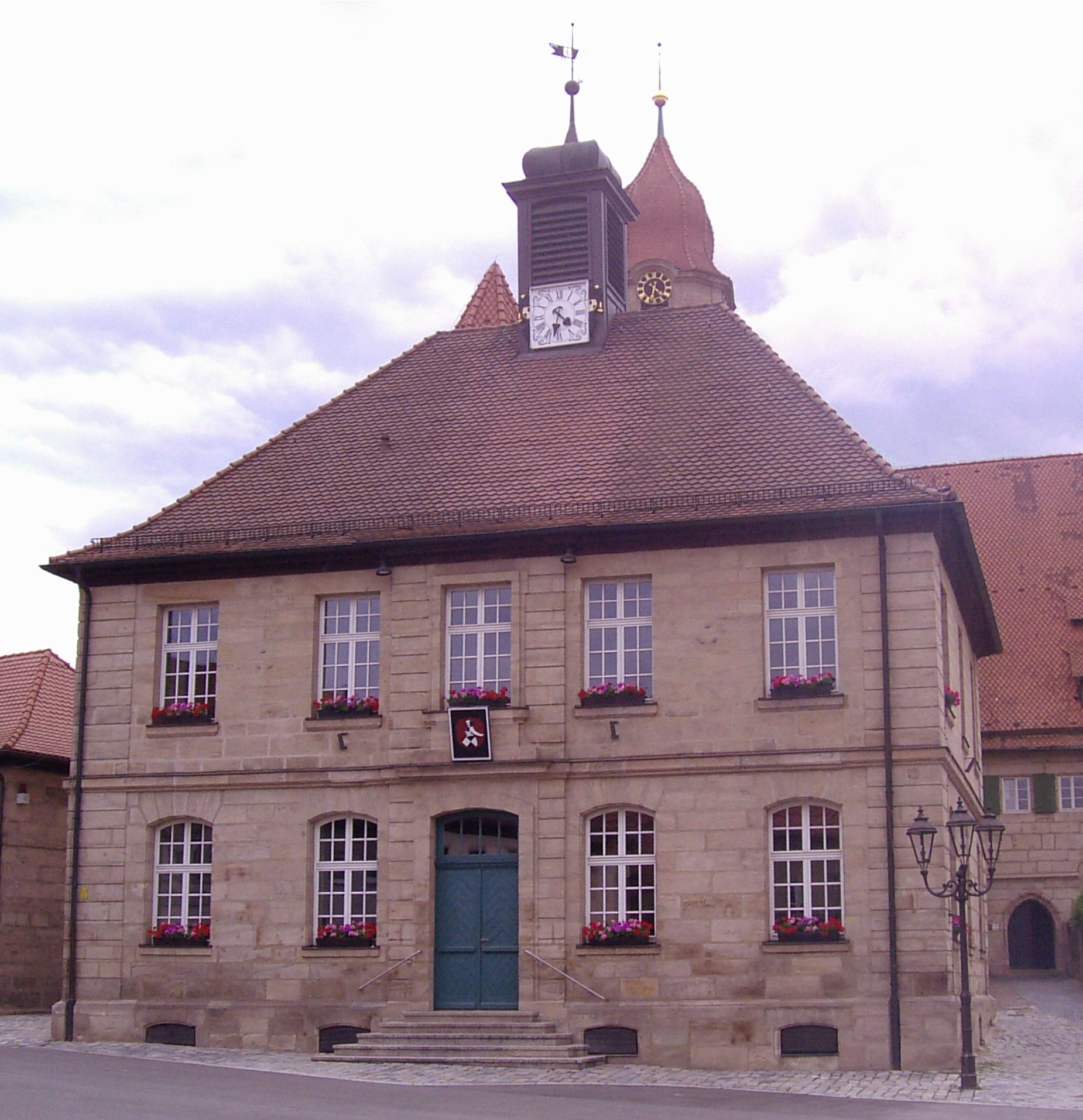 Langenzenn ( Bavaria ). Old town hall ( 1721-1727 ), built by Karl Friedrich von Zöcha